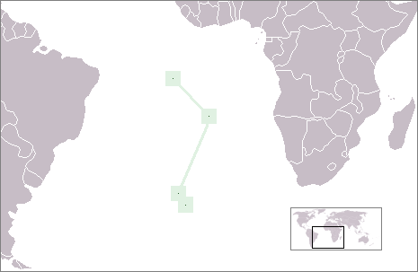 Location of the British overseas territory of St. Helena, Ascension und Tristan da Cunha in the Atlantic Ocean